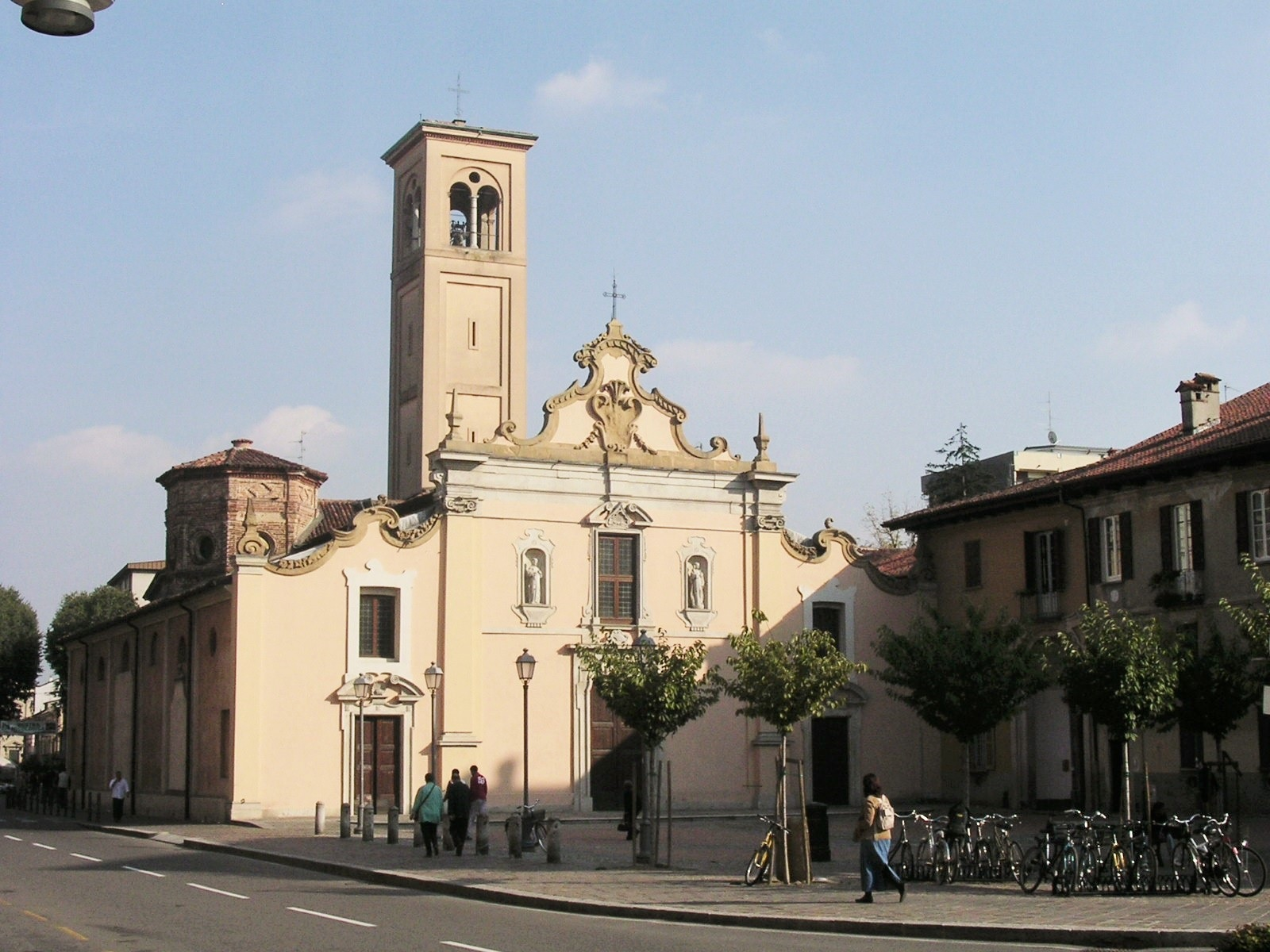 Church of San Francesco in Saronno, Italy.